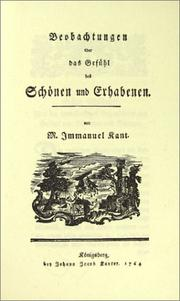 Front cover of Observations on the Feeling of the Beautiful and Sublime (German edition)